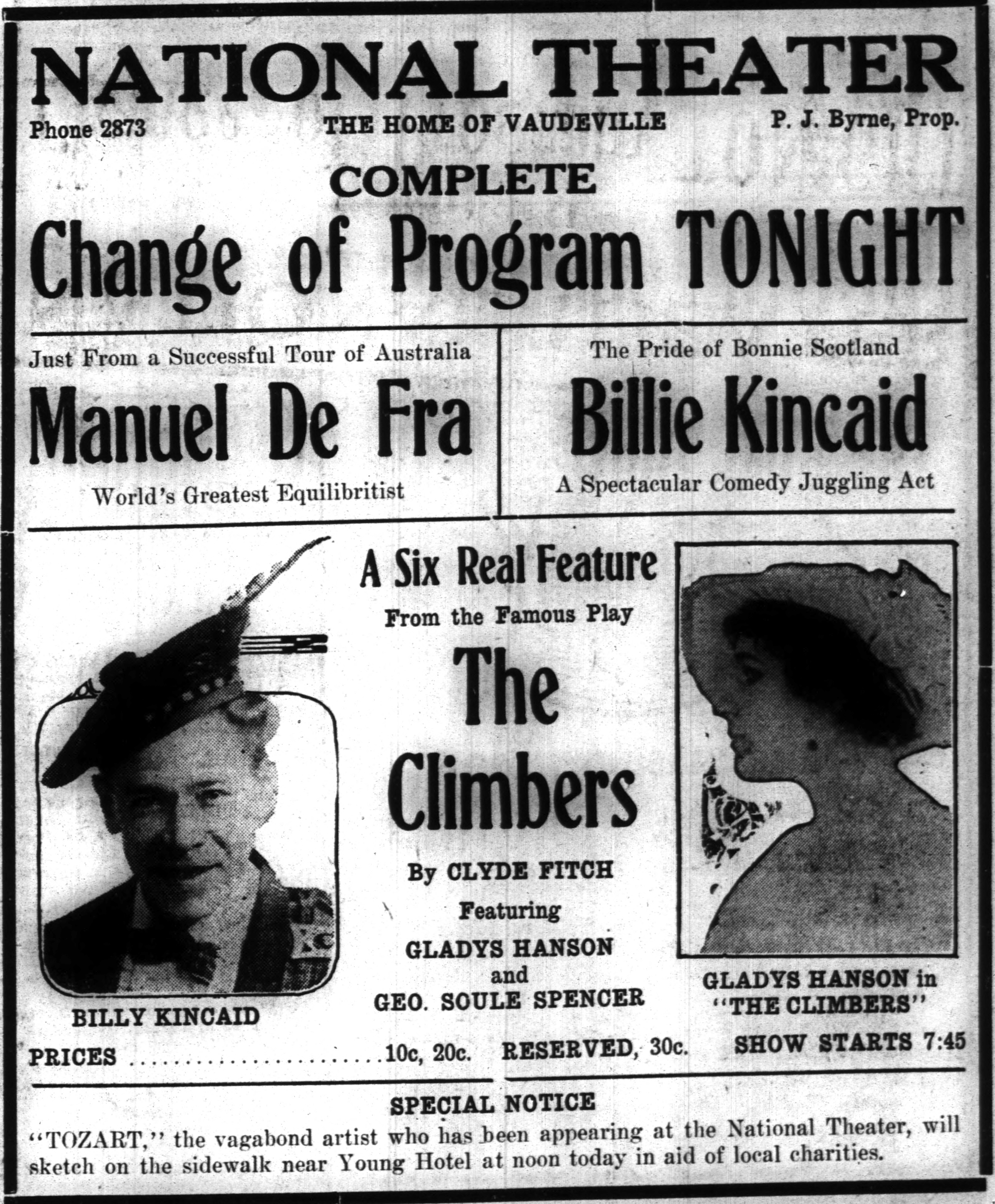 The Climbers is a lost 1915 silent film produced by the Lubin Manufacturing Company and starring Gladys Hanson. This is a newspaper advertisement for the film and a juggling act.